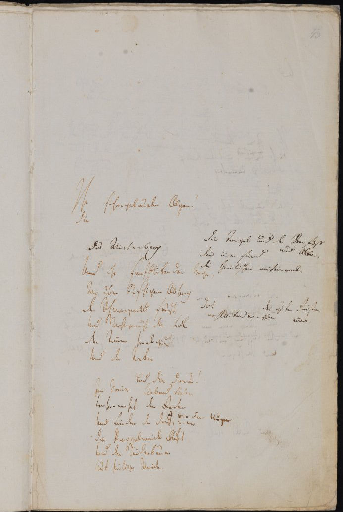 Page 43 of "Homburger Folioheft"